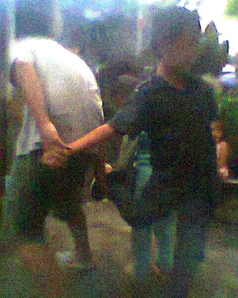 barudak keur ulin